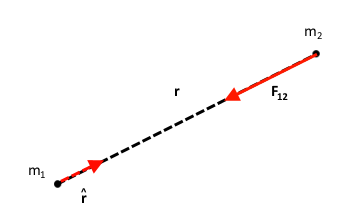 Gravitational force F → 12 {\displaystyle {\vec {F _{12 exerted by object 1 on object 2 ; r ^ {\displaystyle {\hat {r } is the unitary vector from 1 to 2, and r {\displaystyle r} the distance between 1 and 2.